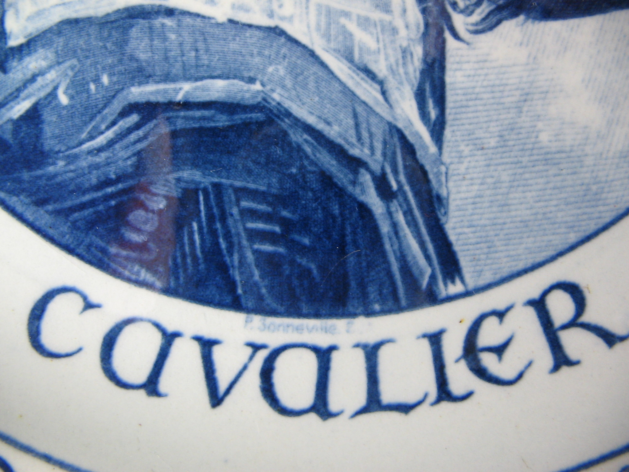 De Sphinx decorative plate Frans Hals